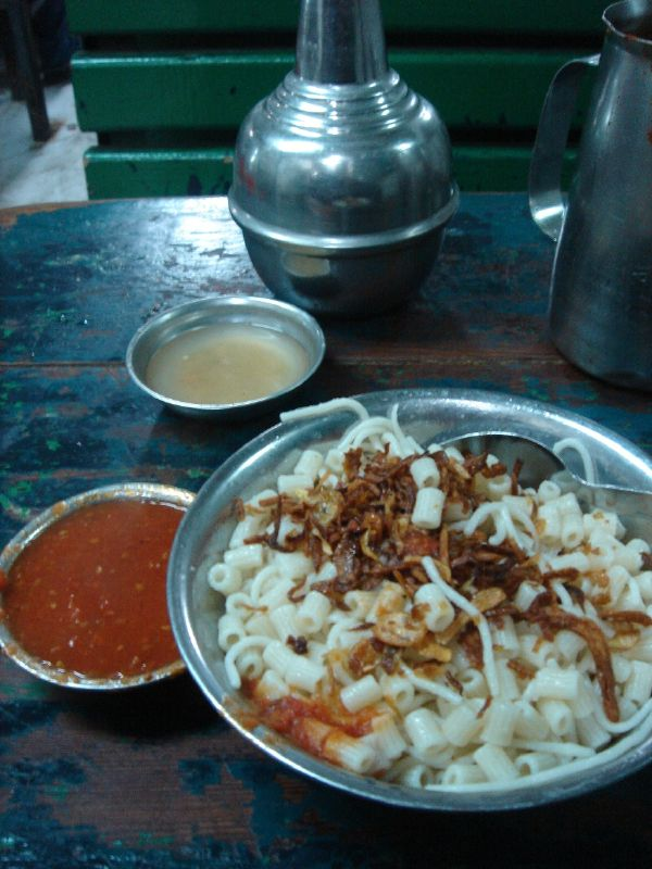 Noodles, rice, fried onions, tomato sauce -called Koshari